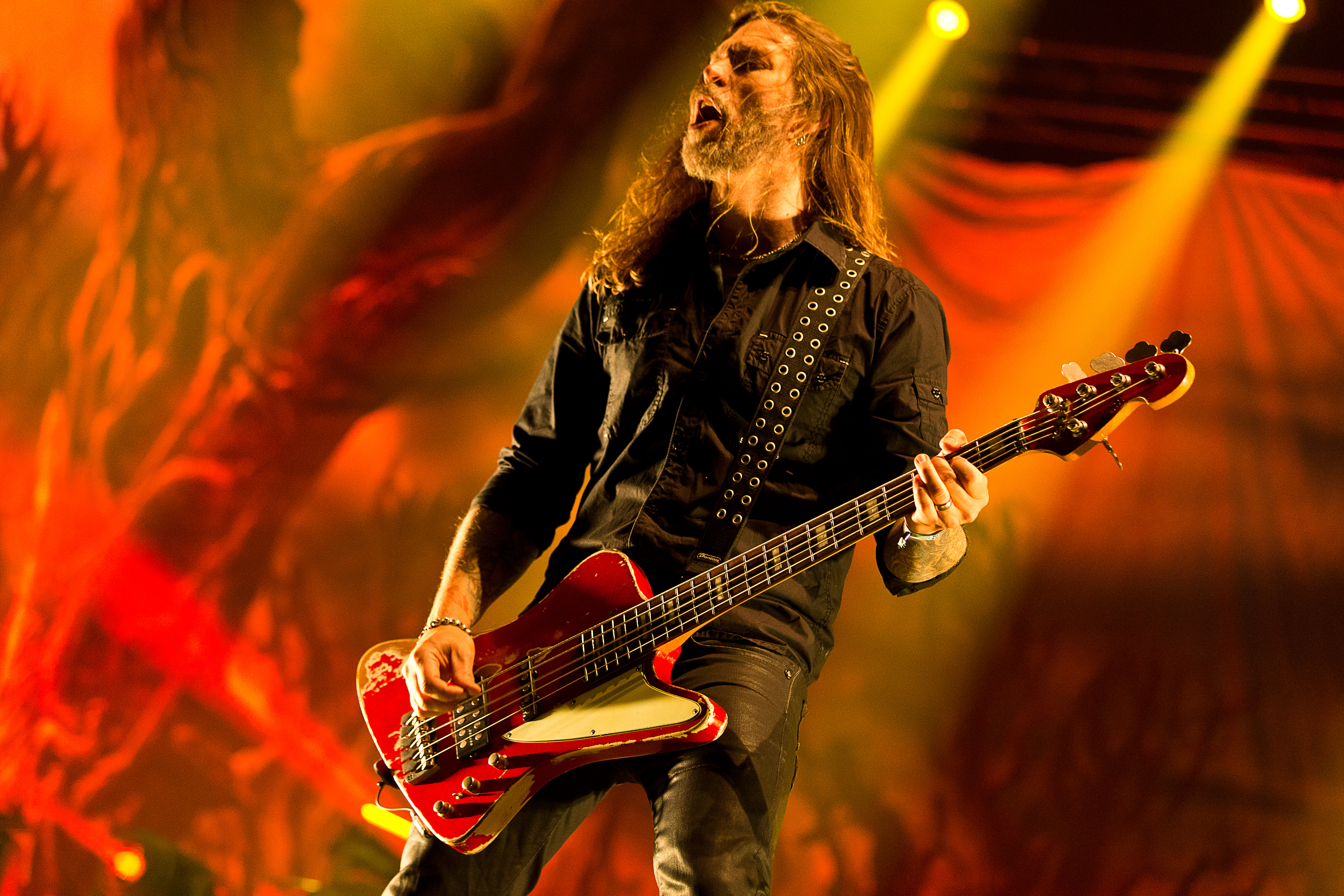 The Swedish power metal band Hammerfall at the Rockharz Open Air 2015 in Ballenstedt/Germany.